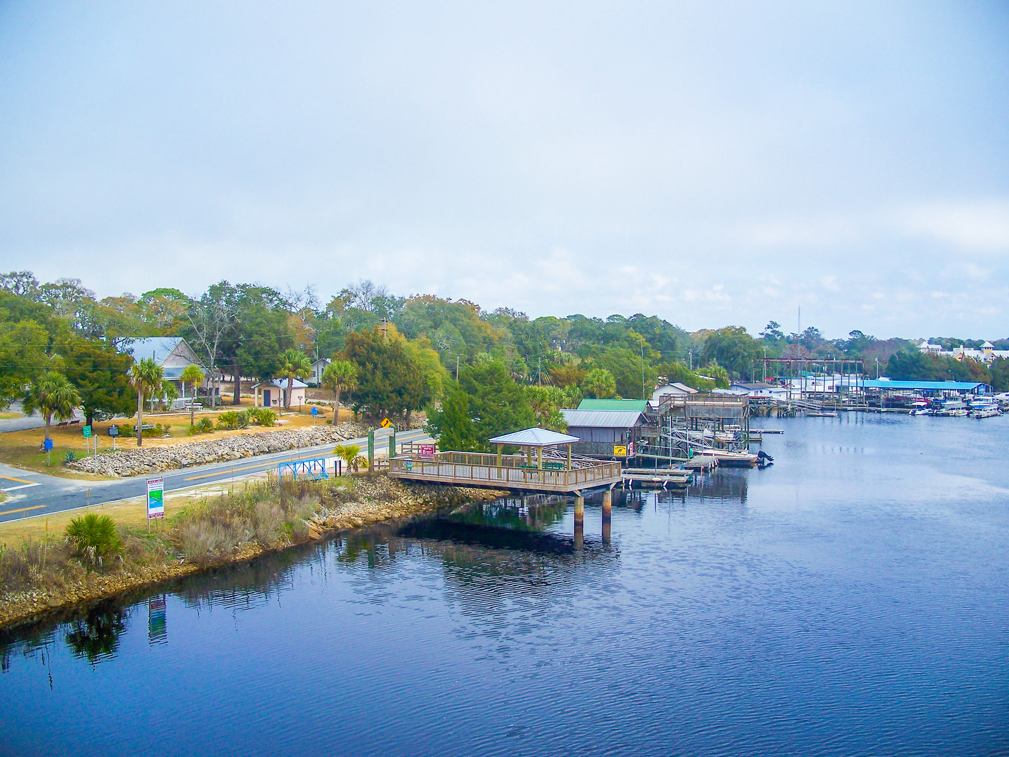 Steinhatchee, Florida: Steinhatchee River Steinhatchee as seen from the 10th Street Bridge facing east, overlooking the Steinhatchee River